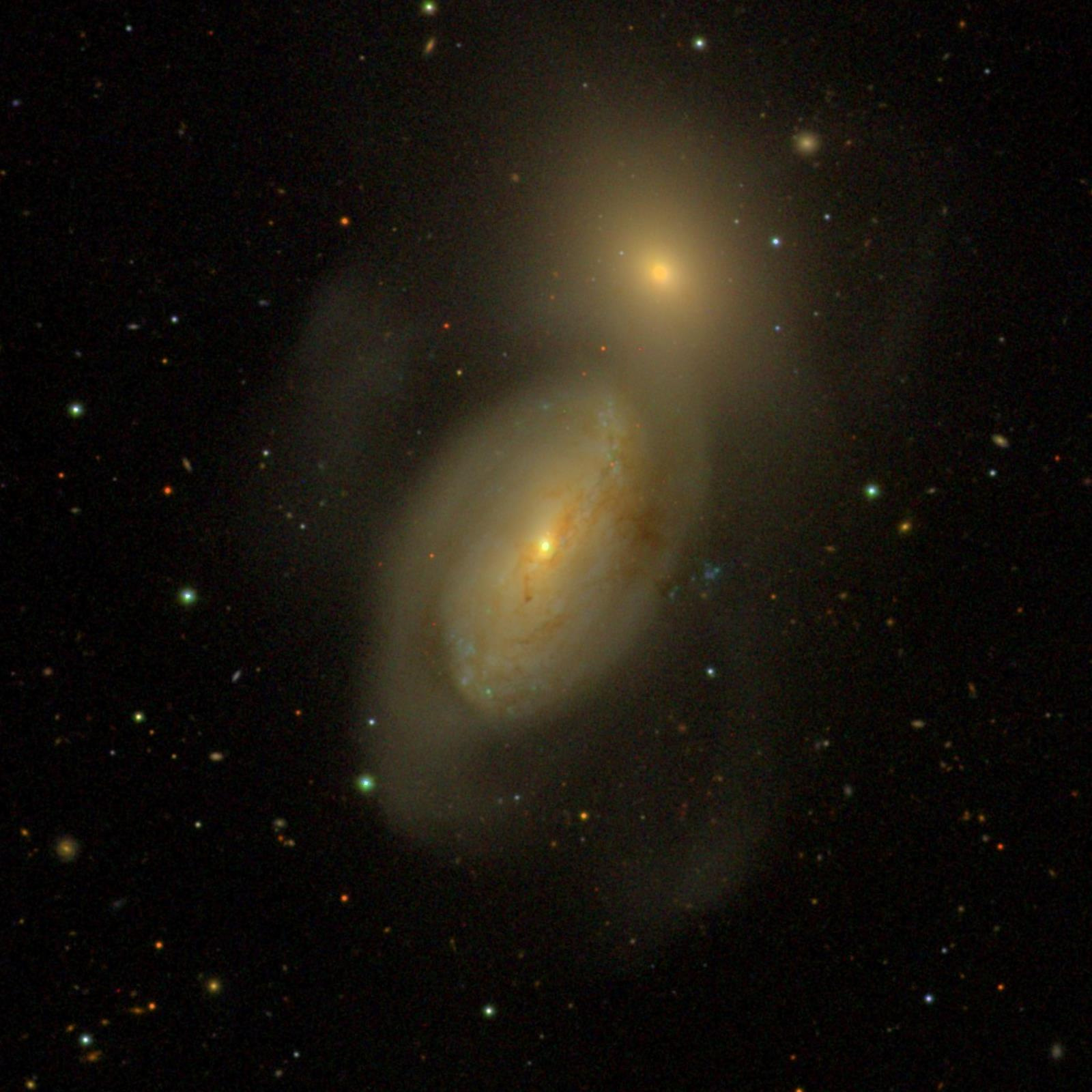 Angle of view: 8' × 8' (0.3" per pixel), north is up.